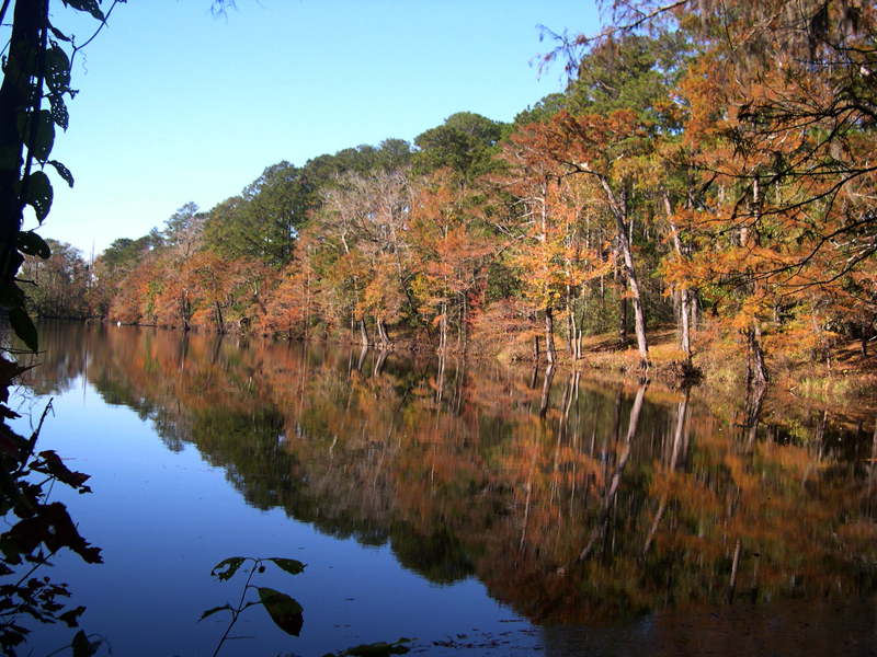 Bouton Lake in Angelina National Forest, Texas